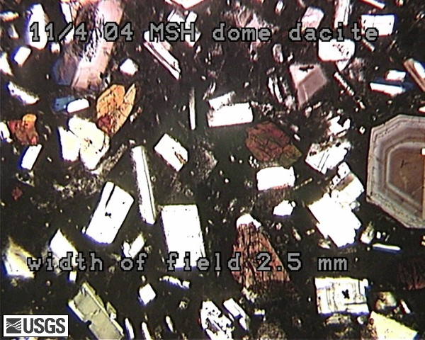 Thin section image in crossed polars of a Dacite sample from a dome in Mount St. Helens. Image by United States Geological Survey, a federal scientific agency.